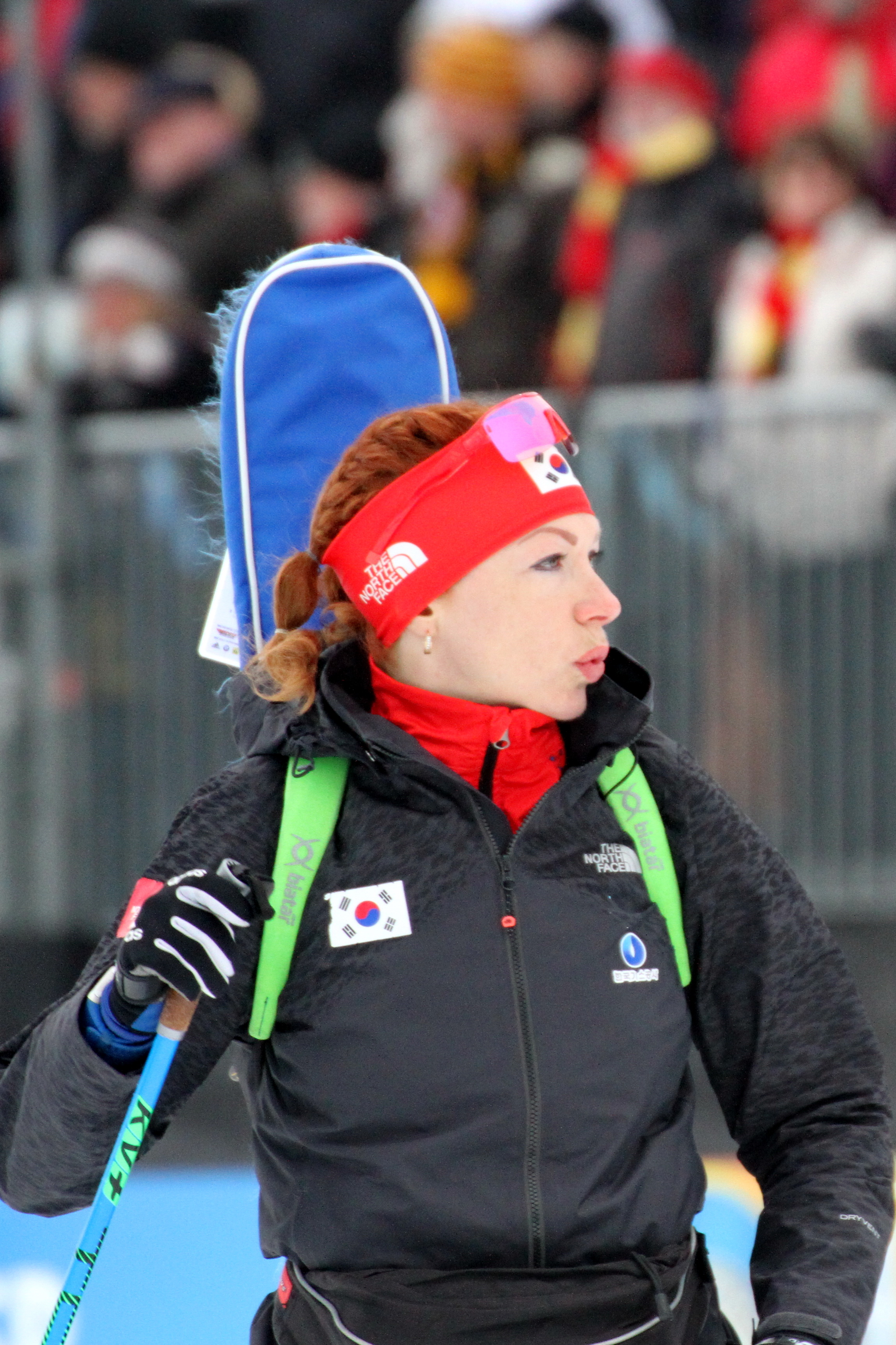 2018 Oberhof Biathlon World Cup - Sprint Women